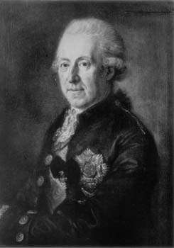 Portrait of Anton Graf von Törring-Seefeld (1725–1812), Former President of the Bavarian Academy of Science